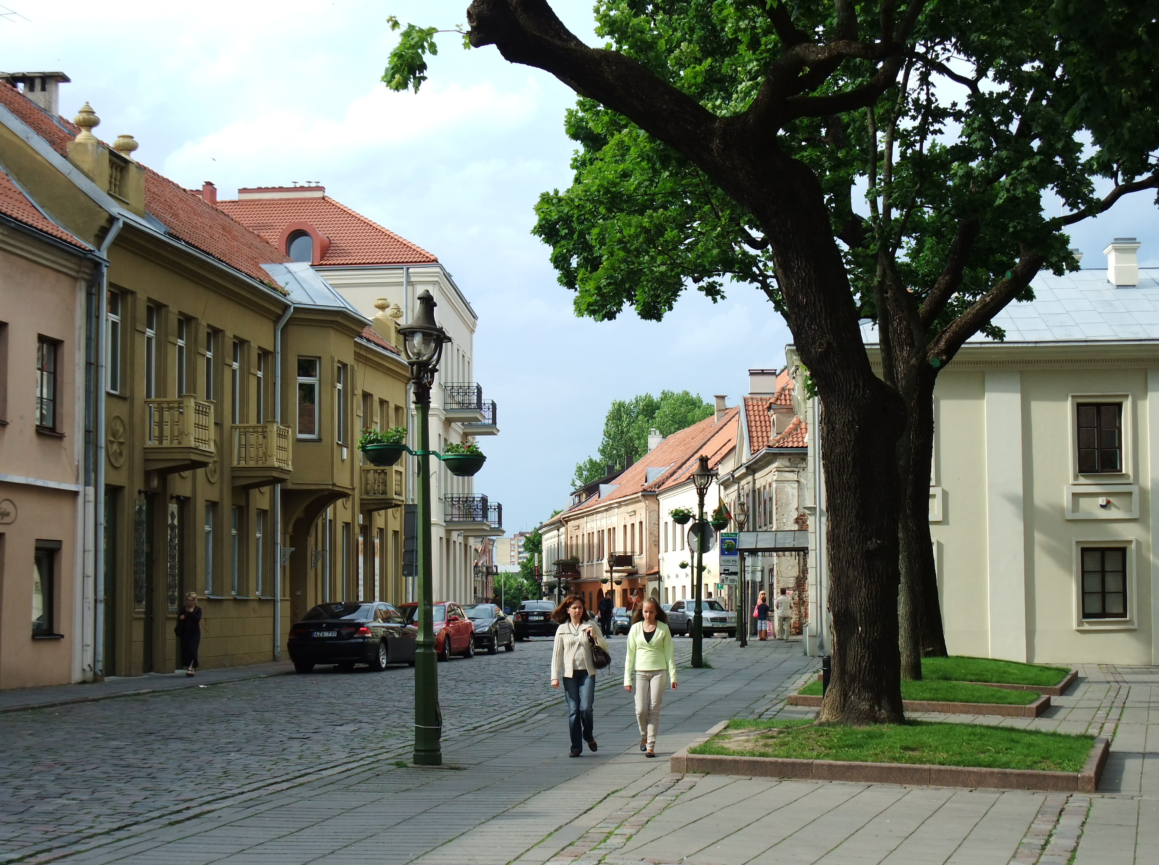 M. Valančiaus Street in Kaunas, Lithuania.